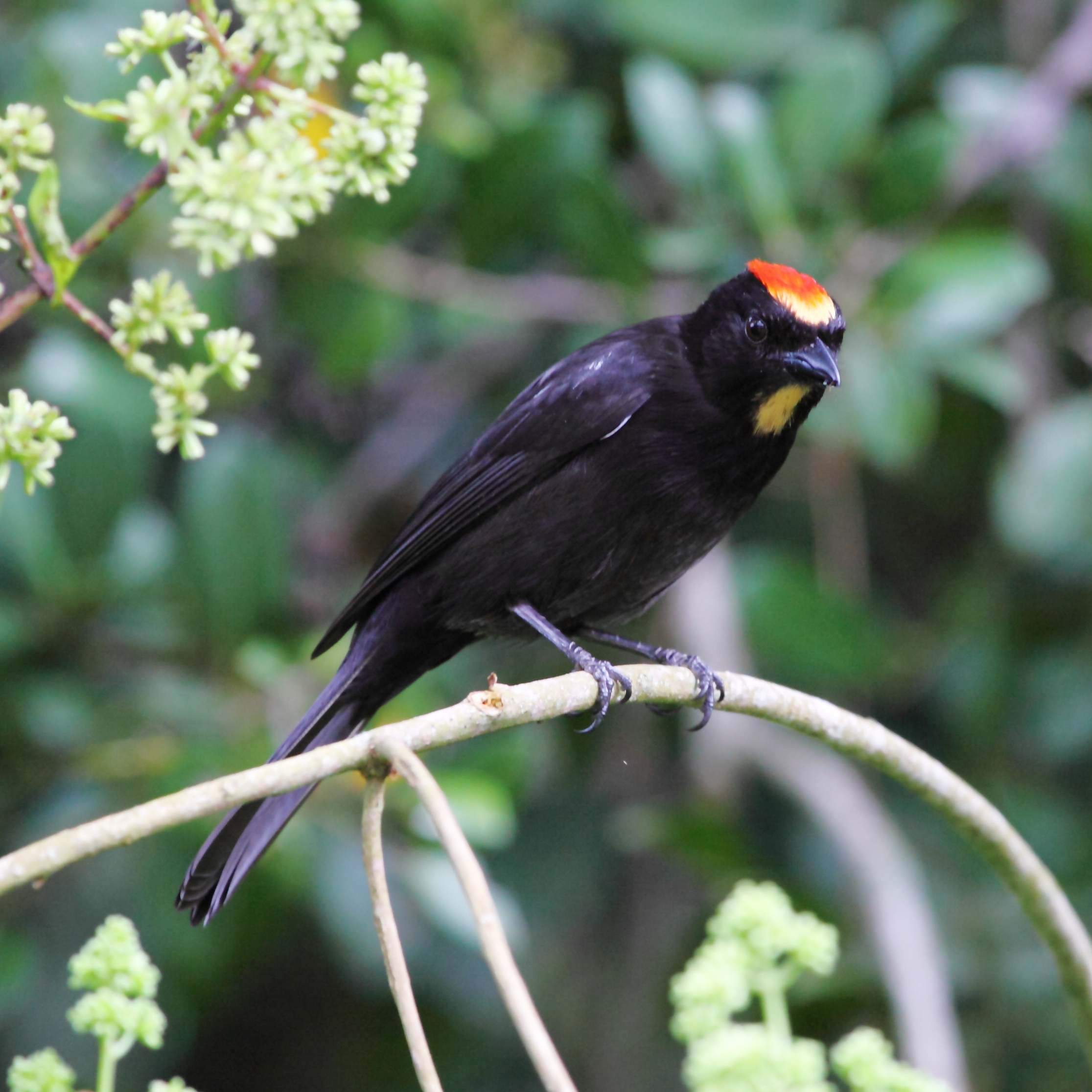 Flame-crested Tanager (male) at Restiga de Bertioga State Park - SP - Brazil